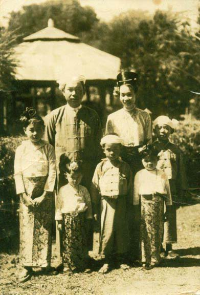 မြန်မာဘာသာ: စဝ်စံထွန်း + စဝ်သီရိစန္ဒရာ၊ တူတော် စဝ်ဆေဟုမ်၊ နှင့် သားတော်သမီးတော်များ စဝ်သုနန္ဒါ၊ စဝ်သုဆီလီ၊ စဝ်ကိုင်ဖ၊ စဝ်ယိင်းစဟွမ် Sao San Tun (30 May 1907 – 20 July 1947) was the hereditary chief of the Shan State of Mongpawng, and Minister of Hill Regions in Myanmar's pre-independence interim government. He was a signatory to the Panglong Agreement that was the basis for the formation of modern Myanmar.